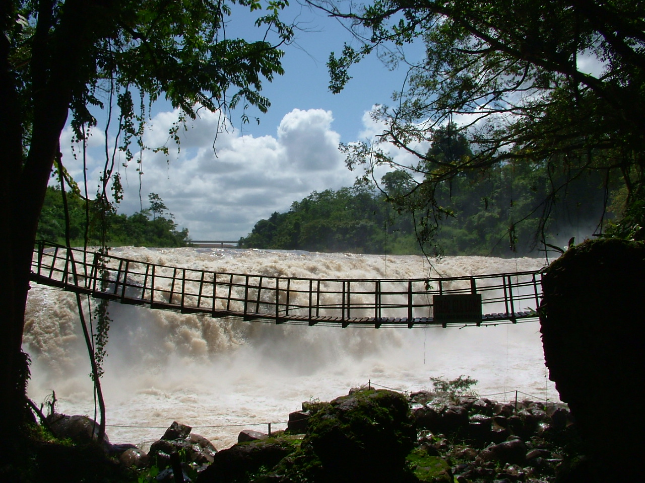 Gia Long waterfall in Srepok River, Dak Lak, Vietnam